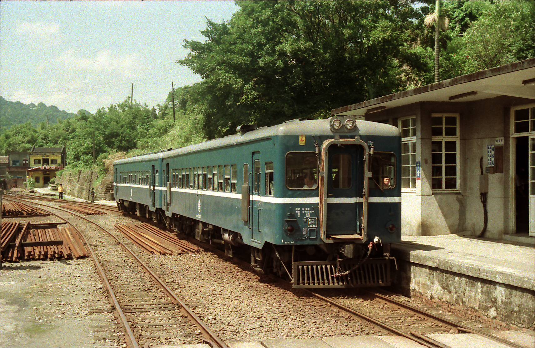 Number DR2103 and another one of diesel railcar type DR2100 at Shihfen Station, Taiwan Railway Administration.